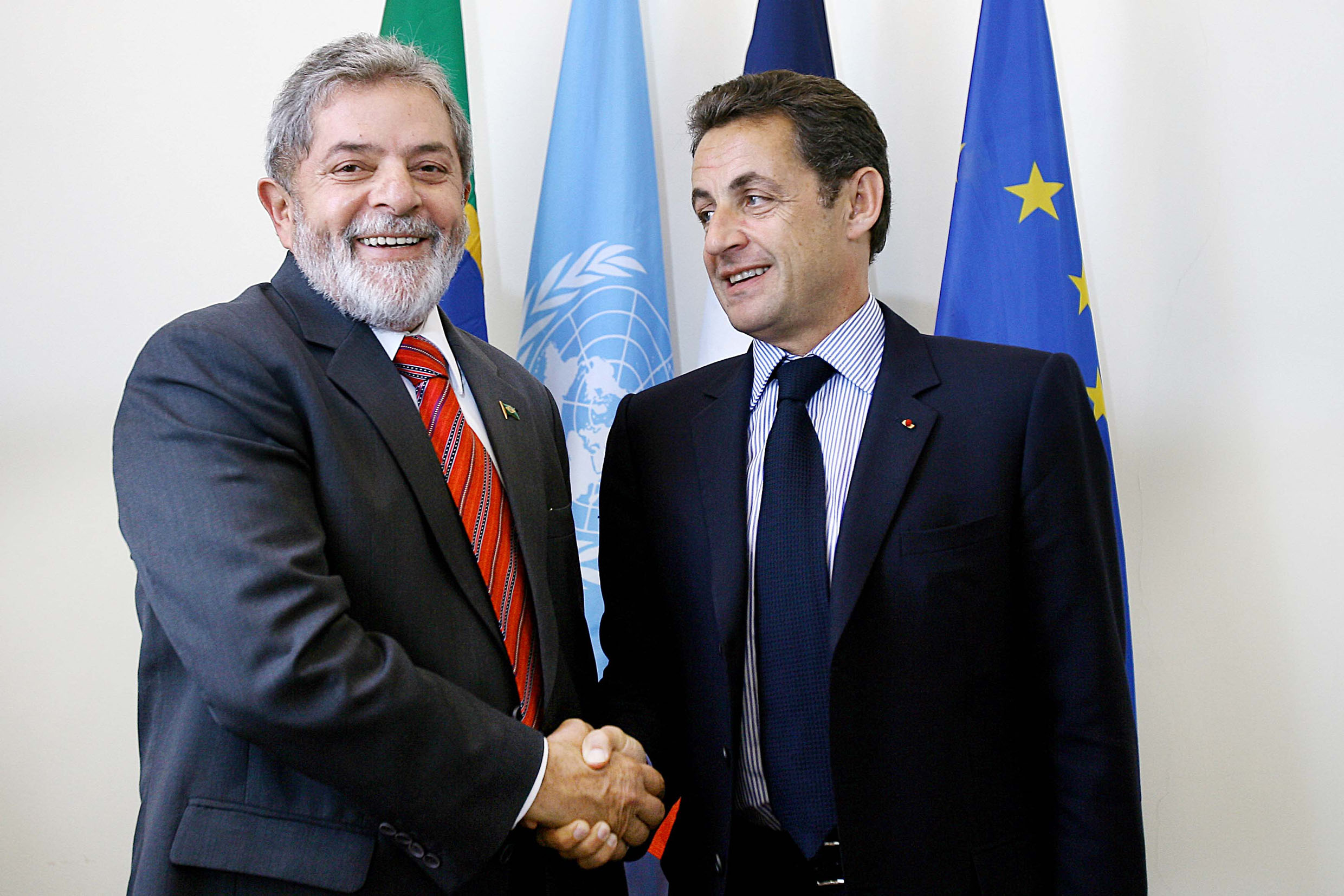 President Sarkozy in New York